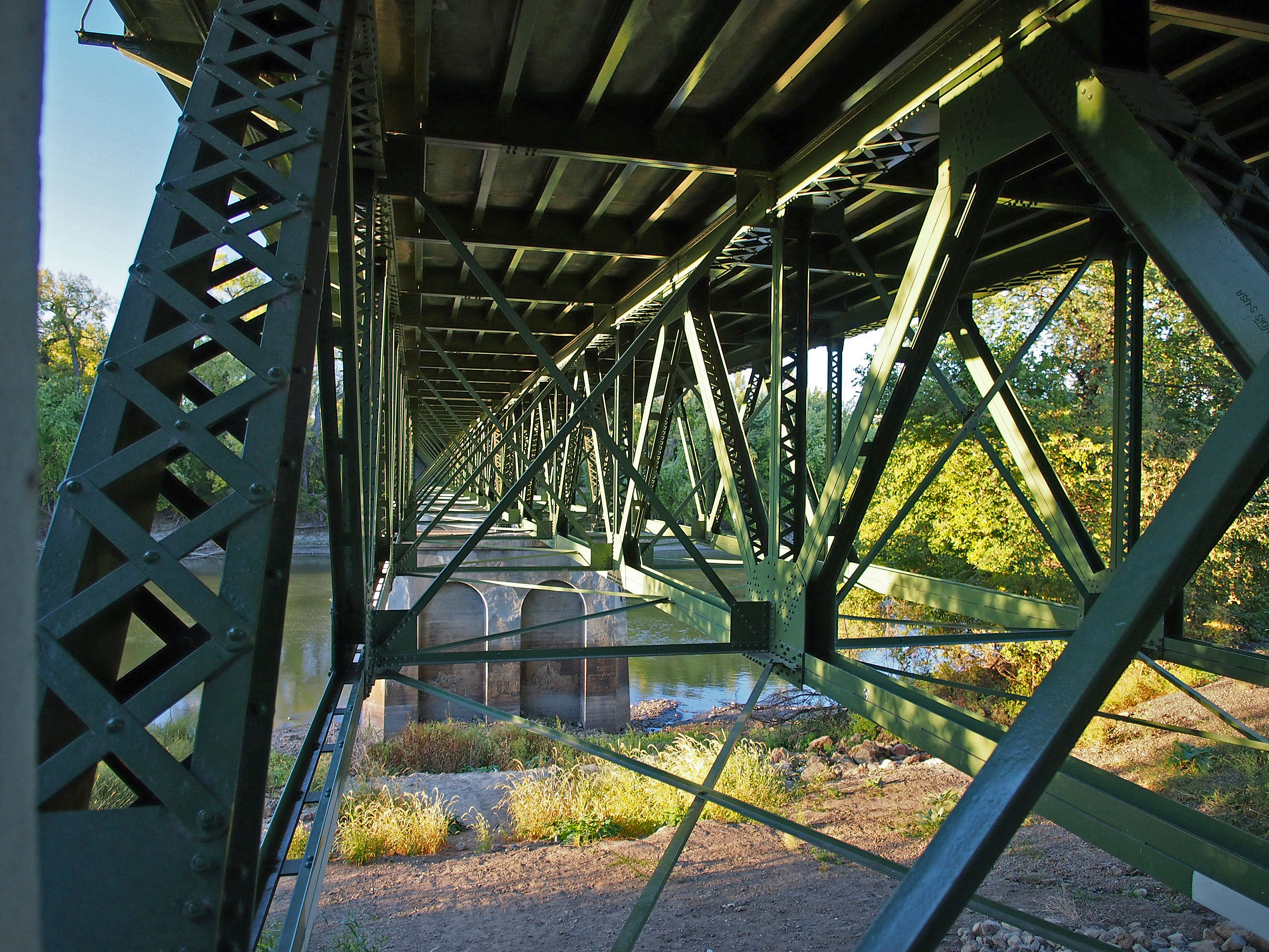 Underside of the Holmes St Bridge, Shakopee, Minnesota, USA. View from the south.